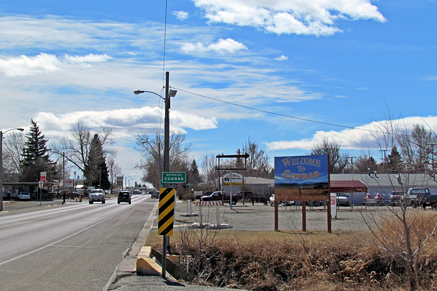 Conrad is a city in and the county seat of Pondera County, Montana, United States. The population was 2,570 at the 2010 census. According to the United States Census Bureau, the city has a total area of 1.2 square miles (3.1 km2), all of it land. Source:Wikipedia